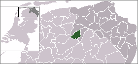 Locator map of Dutch municipalities in Groningen (LocatieMarum.png)